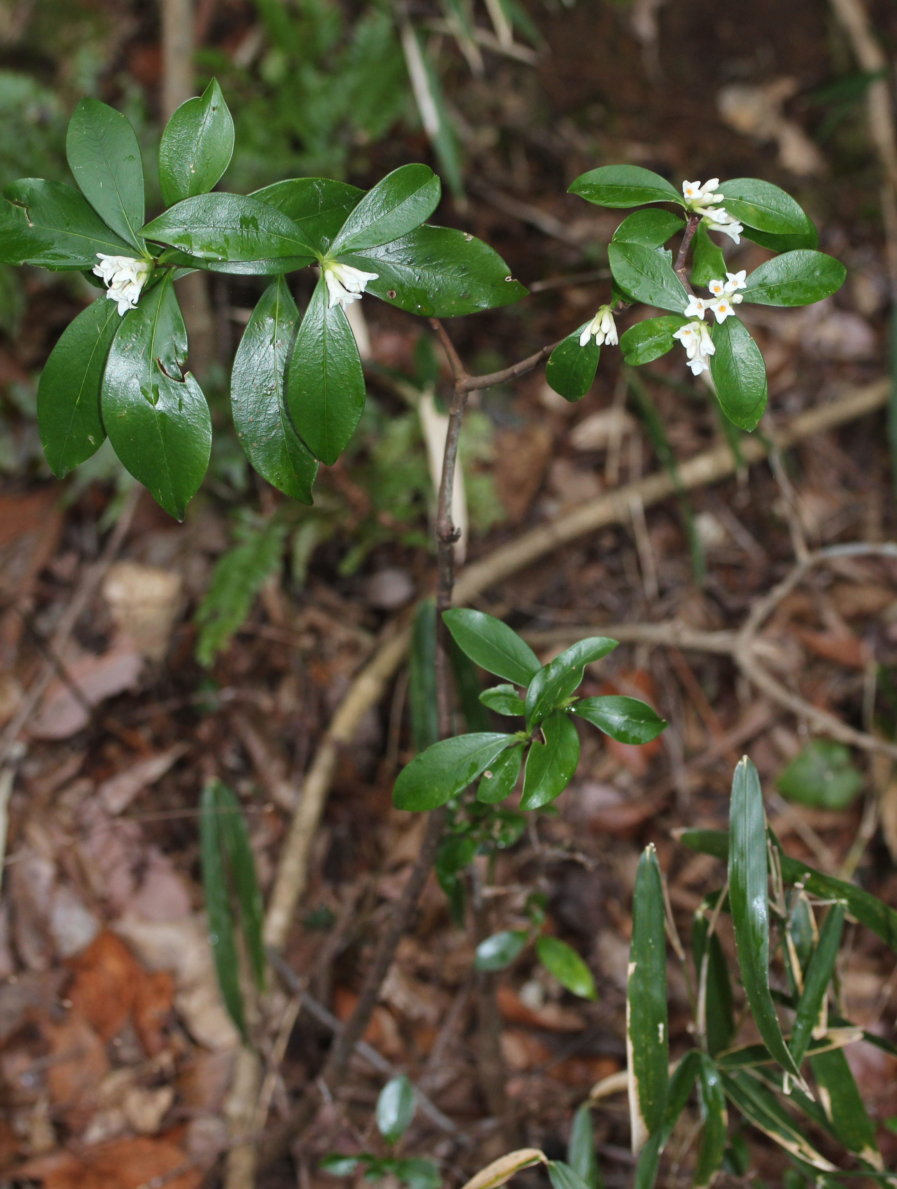 Daphne kiusiana in Mount Fujiwara, Inabe, Mie prefecture, Japan.